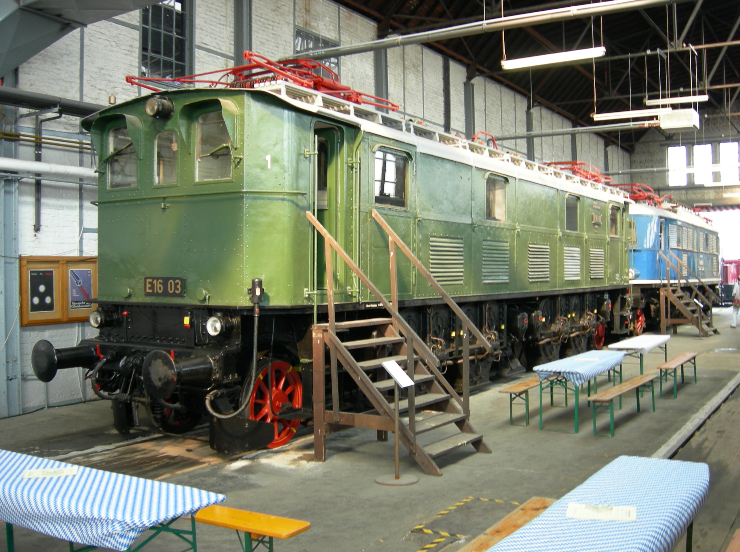 Electric locomotive E16 03 at the DB Museum in Koblenz-Lützel, a local branch of the Transport Museum in Nuremberg, Germany